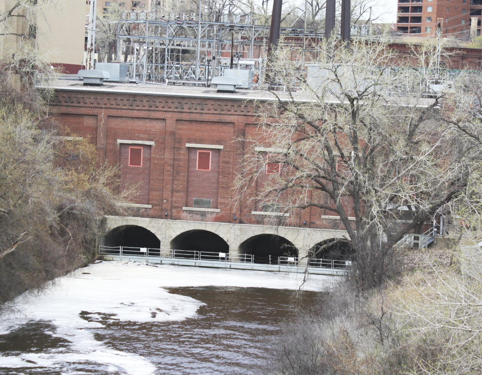 Hennepin Island Hydroelectric Plant and tailrace as seen from the Stone Arch Bridge - St. Anthony Falls, Minneapolis, Minnesota